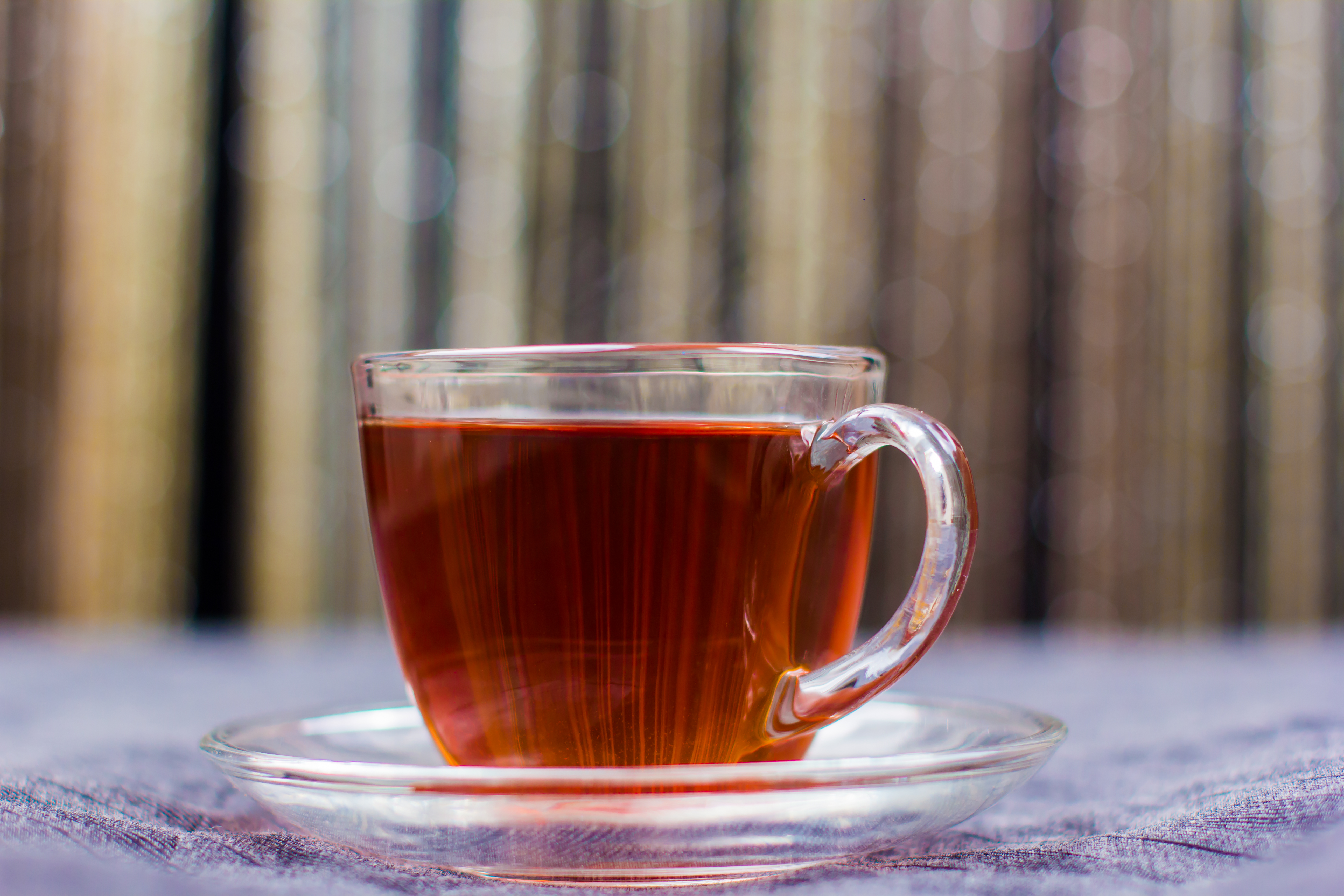 Red Tea